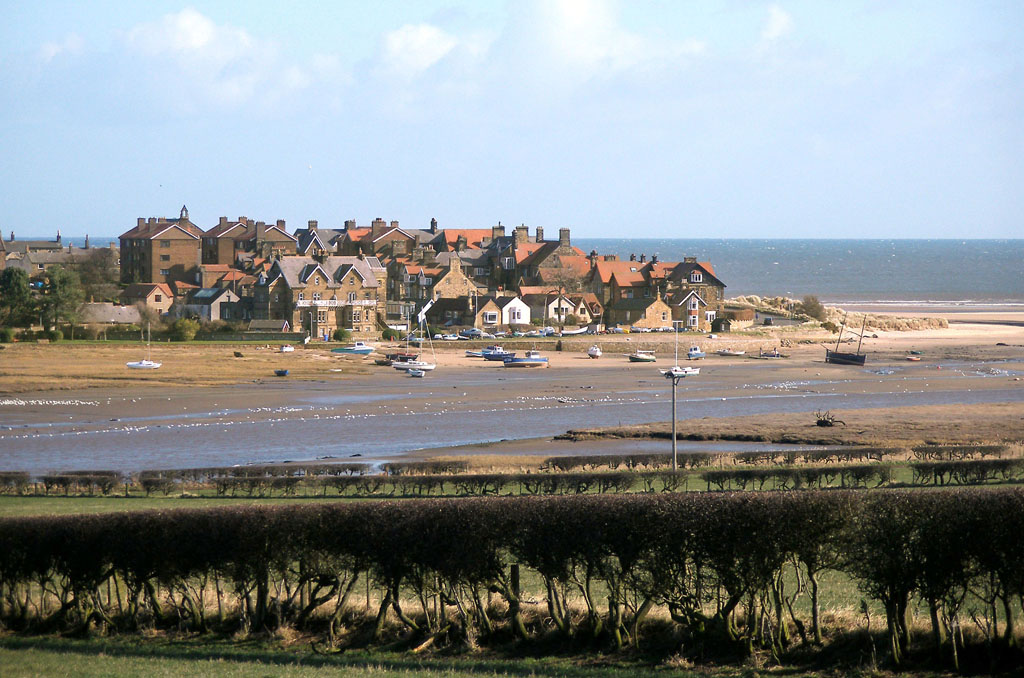 Looking over the River Aln to the pretty village of Alnmouth in Northumberland.